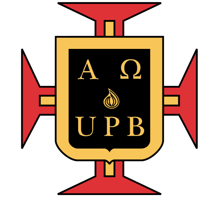 escudo upb